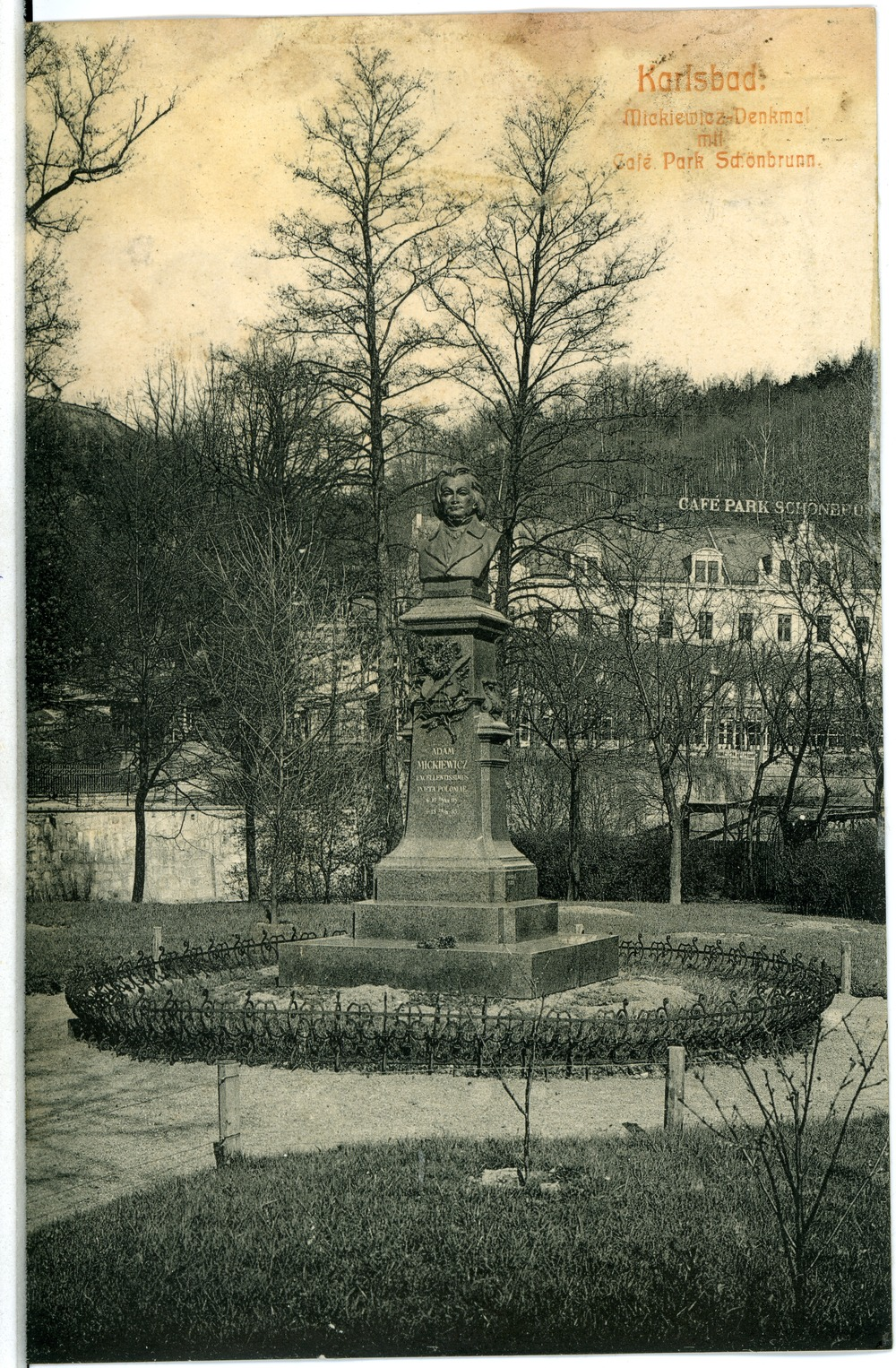 This postcard is from publisher Brück & Sohn in Meißen ( This postcard has a unique number 03340 and is available in a higher resolution at the publisher. This images was uploaded in a cooperation project between Wikipedians and the publisher.